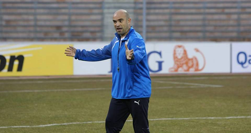 Bernardo Tavares with Al Hidd in 2014 ACL.; In a training session for the match against Shabab Al Ordo of Jordan in Jordan.; February 2014 Amman International Stadium